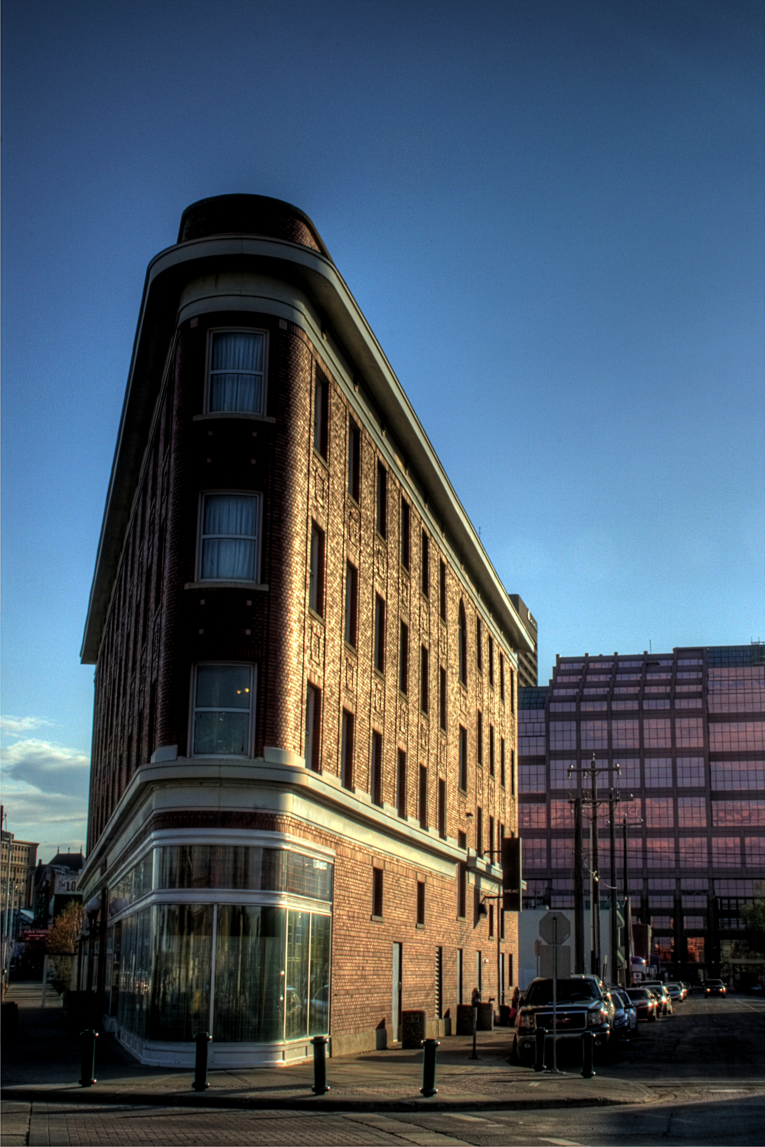 The Gibson Block in Edmonton, Alberta, Canada. This is a flatiron building, the only one in Edmonton and one of very few in the province of Alberta.